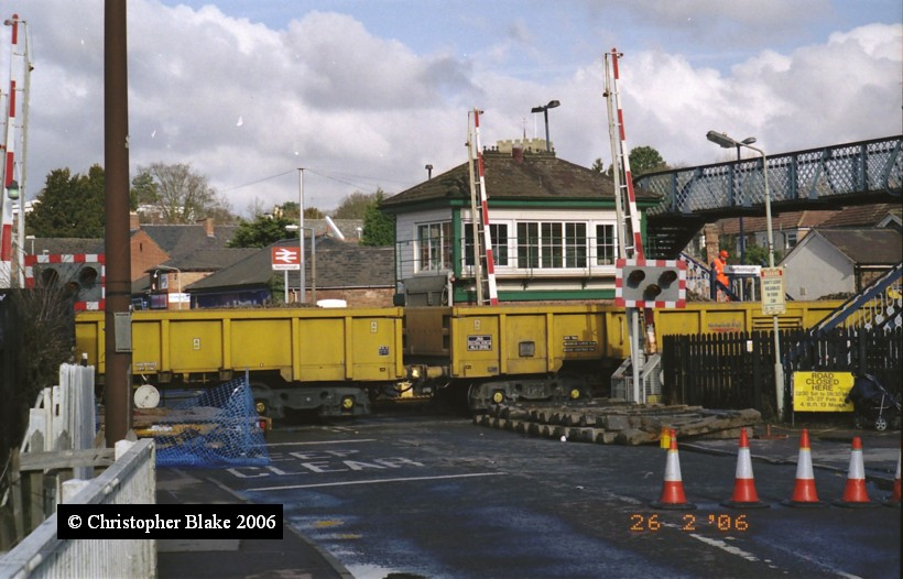 Engineering work at Narborough railway station.